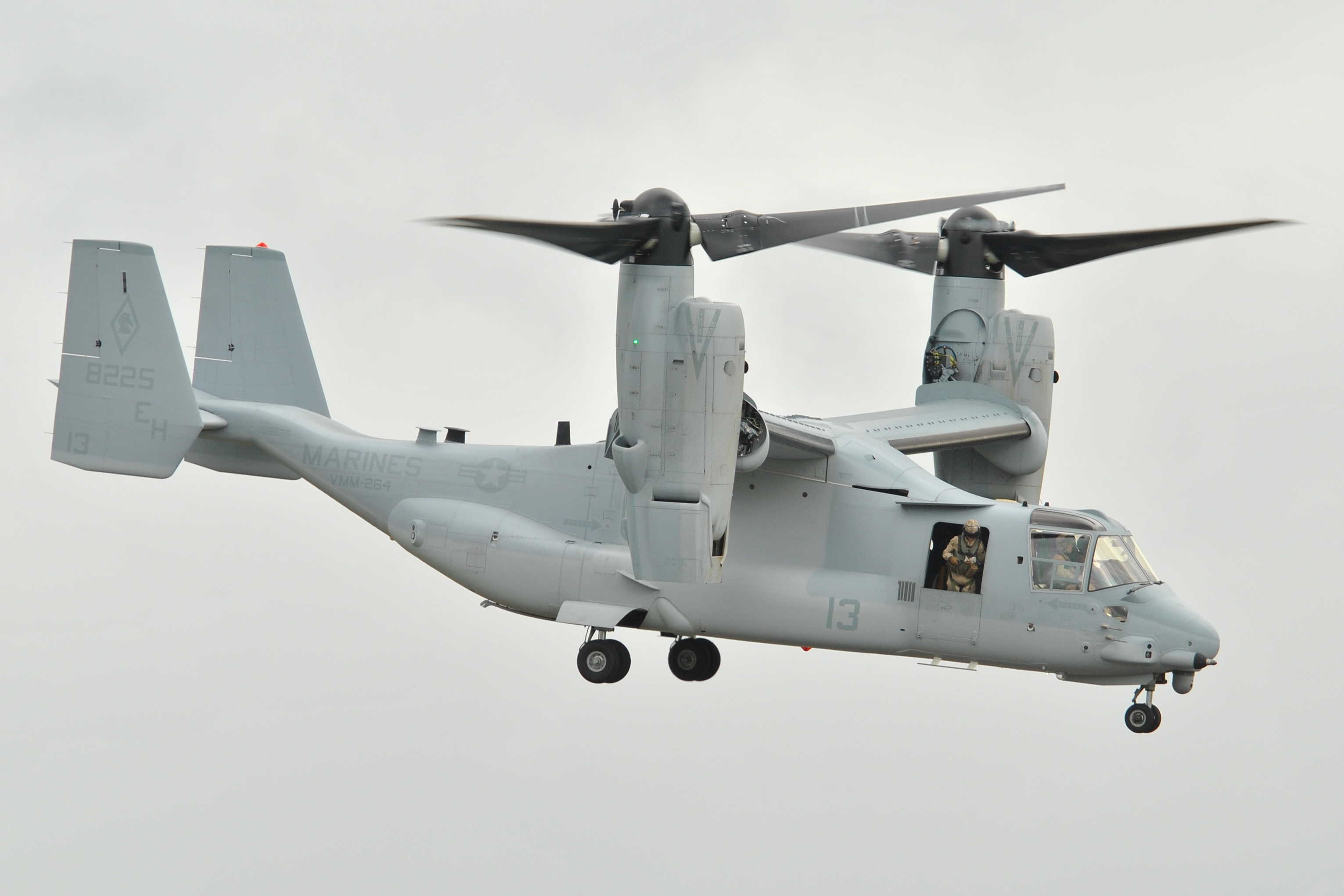 US Marine Corps V-22 Osprey